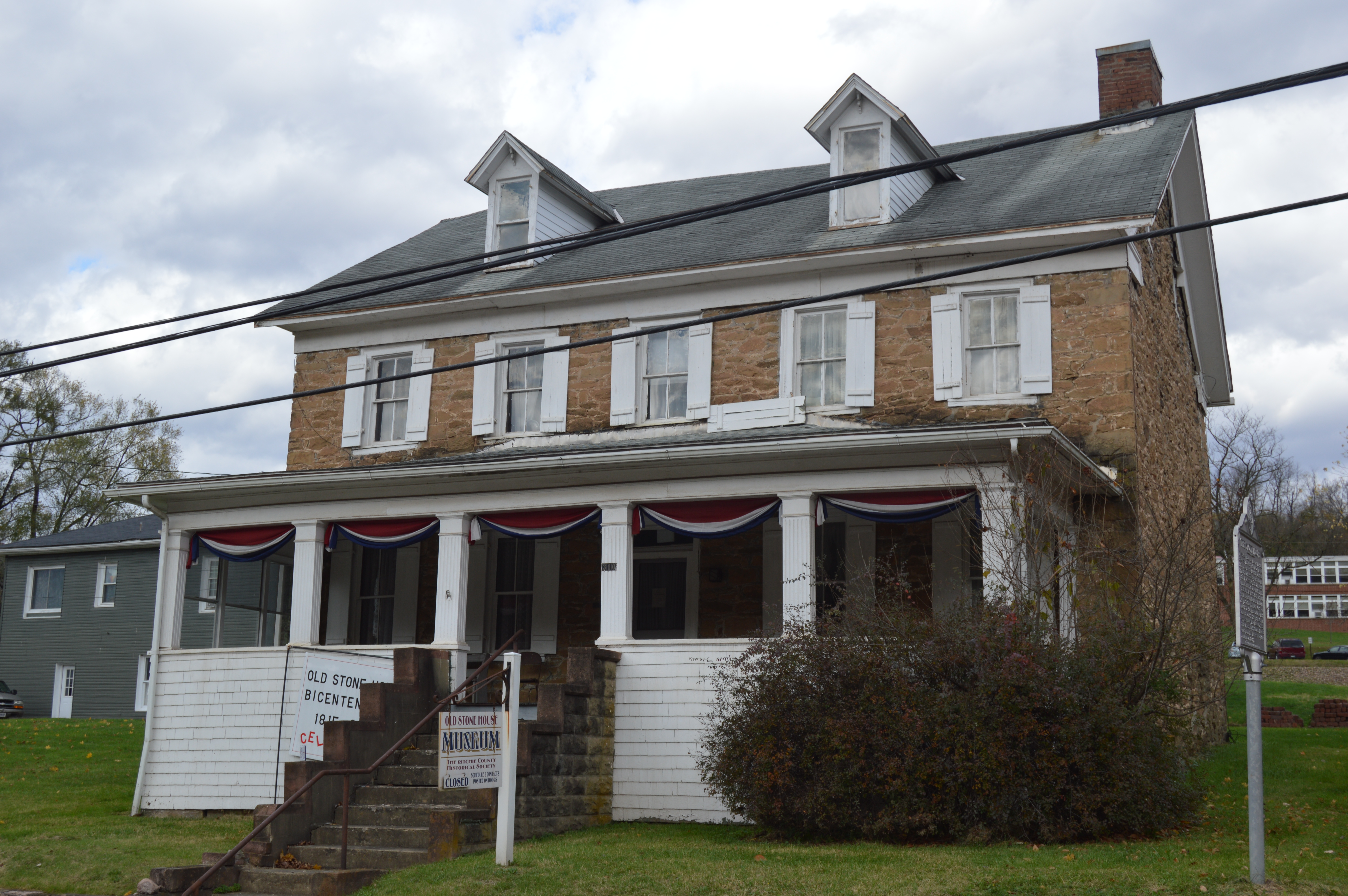 Front and eastern side of the Old Stone House, located at 310 W. Myles Avenue in Pennsboro, West Virginia, United States. Built in 1815, it is listed on the National Register of Historic Places.